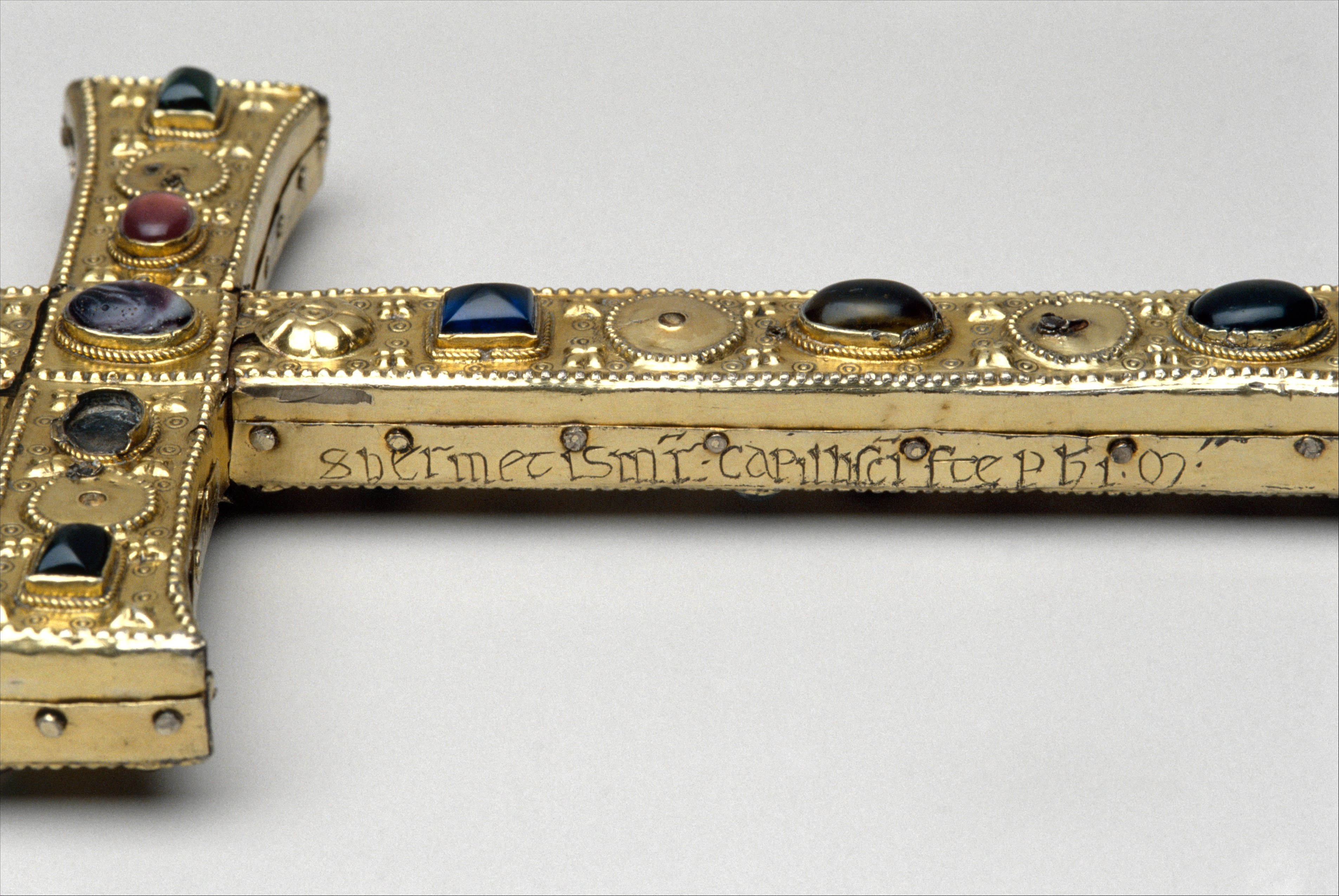 he Reliquary Cross is a small (29.8 × 12.5 cm) French metalwork sculpture dated c. 1180, now in The Cloisters museum in New York. The reliquary cross is double armed, and made from silver gilt, crystal and twisted wire, with embossed rosettes, and a wood core. It contains six sequences of engravings, on either side of the shaft, and on the four sides of the lower arms. These were intended to identify the relics contained within.